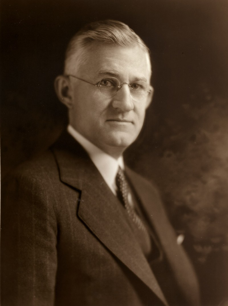 Photograph of Harland Bartholomew